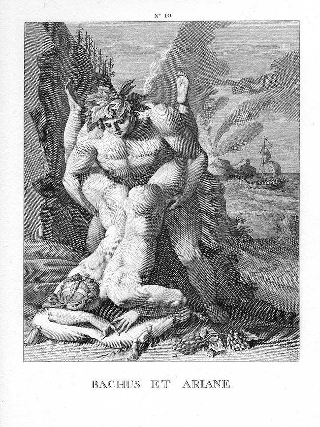 Nominally Bacchus and Ariadne.